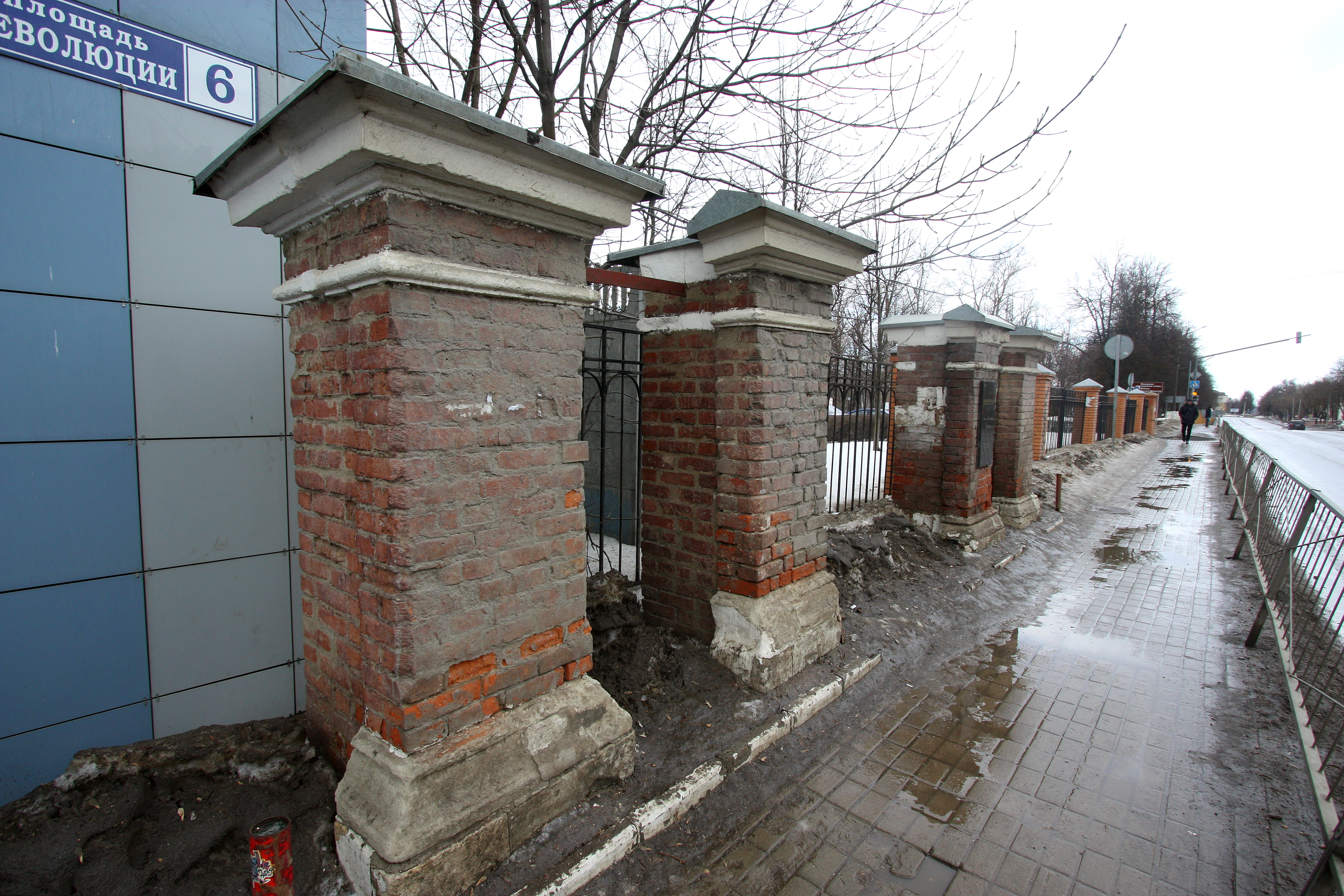 The remains of the house in which he lived Chekhov, A. P. in Istria (at the time the town of Voskresensk) in 1883-1884. the Inscription on the memorial plate: "Here in the years 1883-1884 he lived the great Russian writer Anton Pavlovich Chekhov. The house was destroyed in December 1941." Opposite to the house № 4 on the street Pervomayskaya, near TTS "Briz" (Revolution square, 6), city of Istra, city of Istra district, Moscow oblast, Russia.